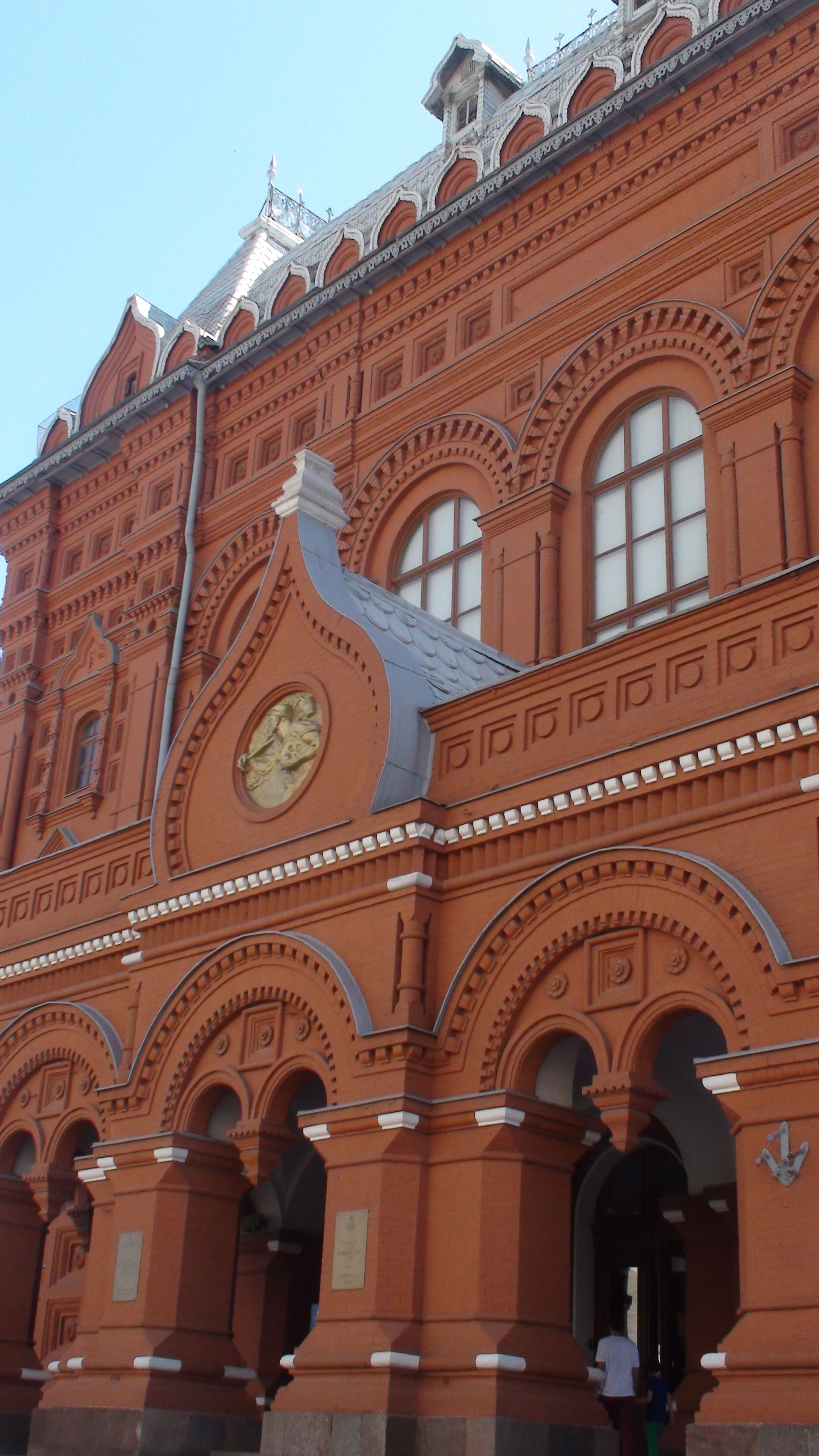 г. Москва старое здание городской Думы